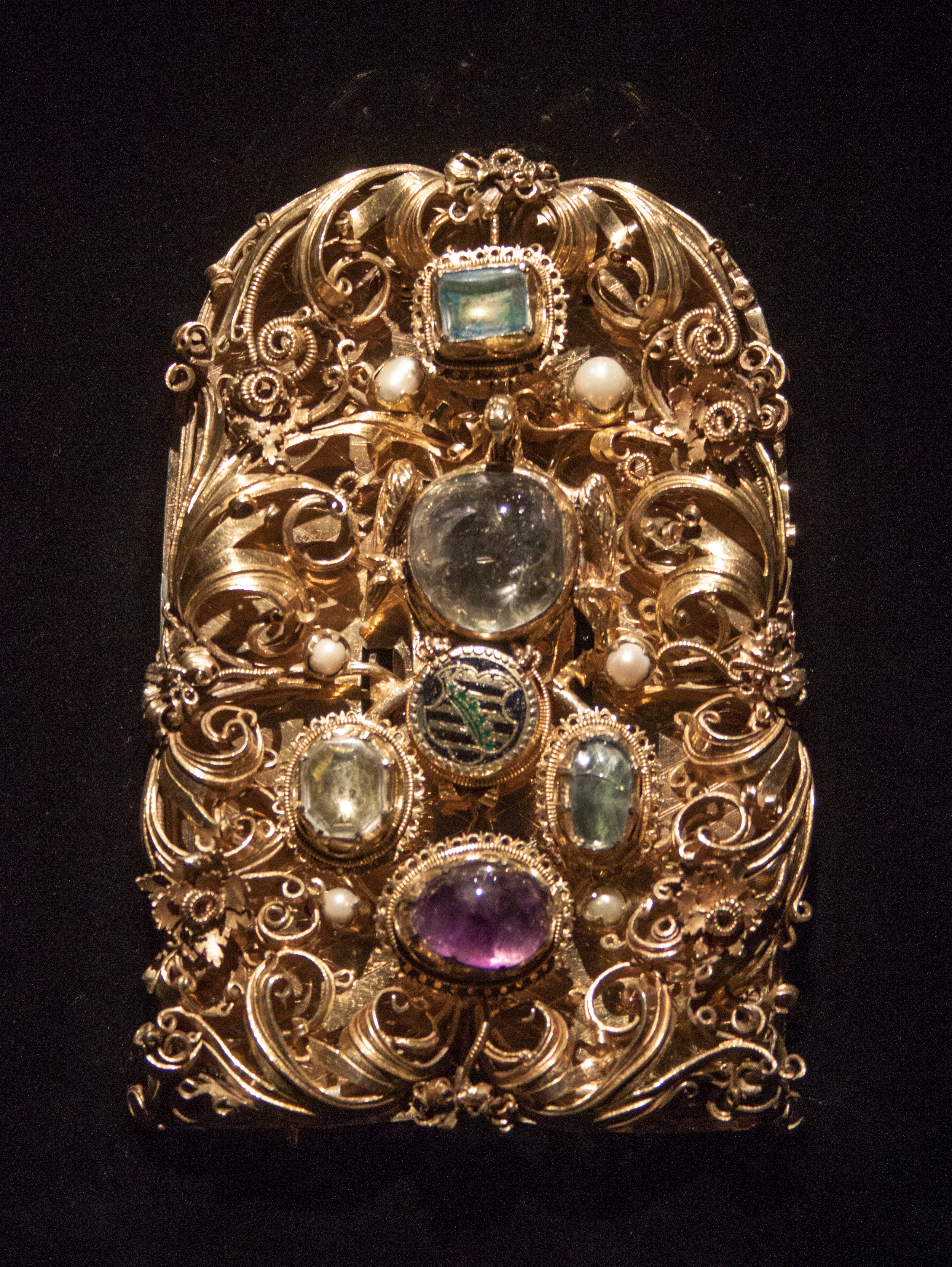 Koldinghus, exhibition Magtens smykker (Jewellery of the power), 2018